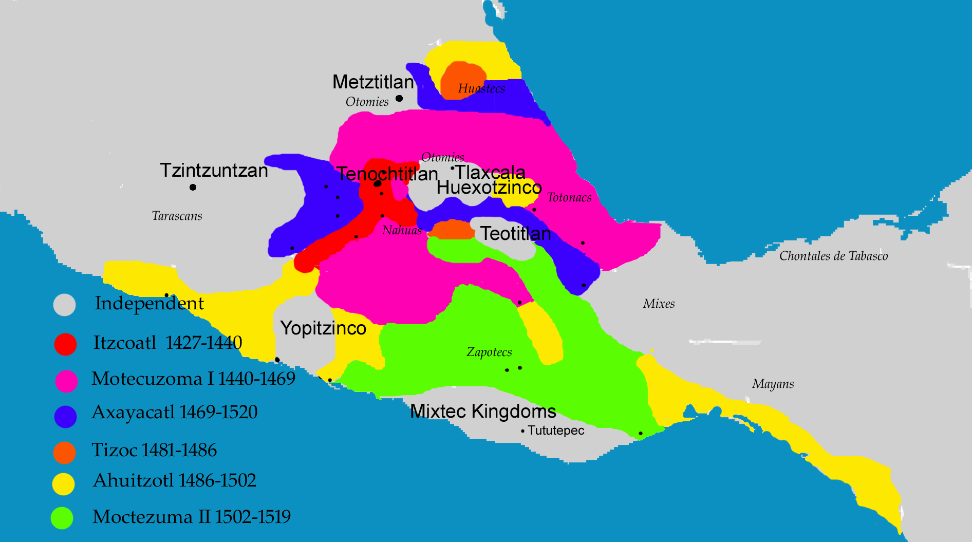 Map showing the expansions undertaken by various Aztec rulers.